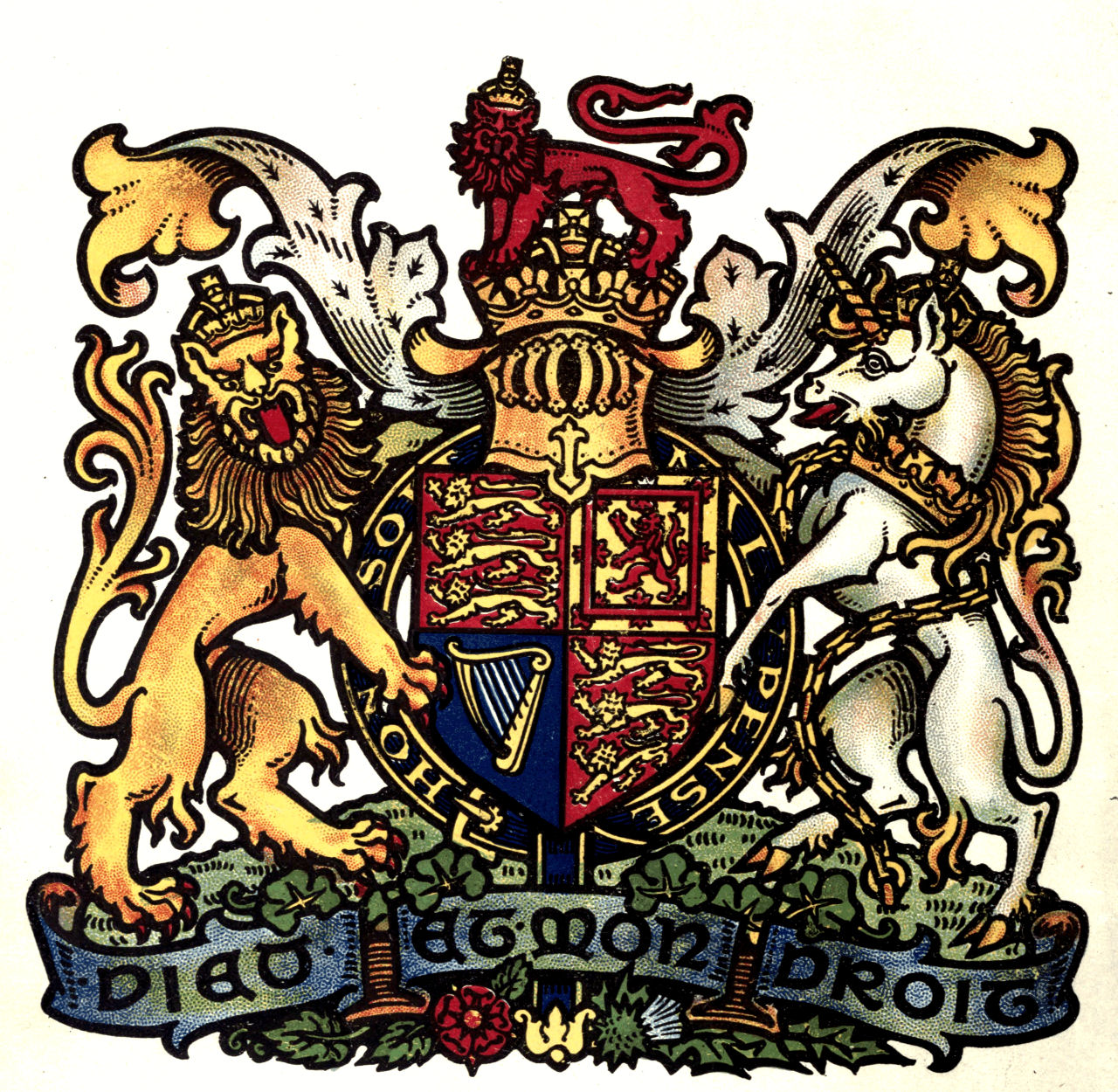 Plate 1. The Royal Arms (sc. of the United Kingdom).